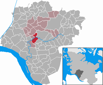 This map shows the area of the municipality Heiligenstedten in the Kreis (district) Steinburg, Schleswig-Holstein, Germany.